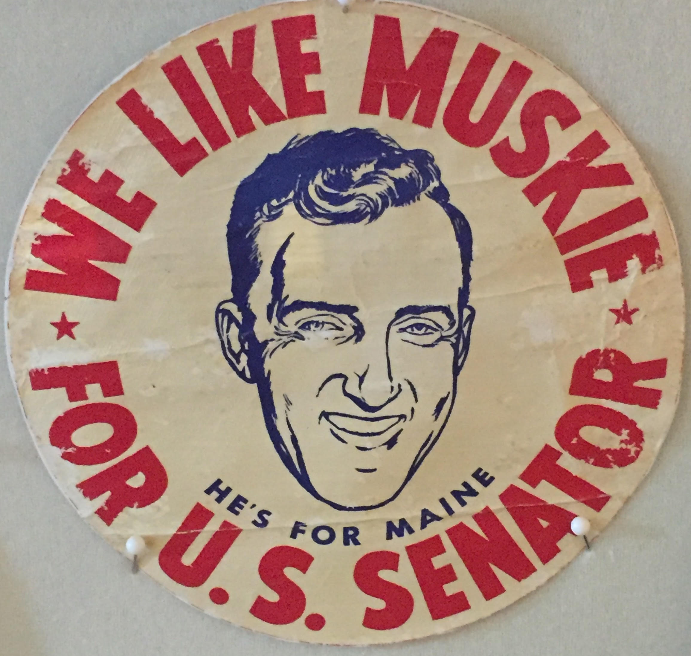 Sticker for Edmund Muskie's Senate run